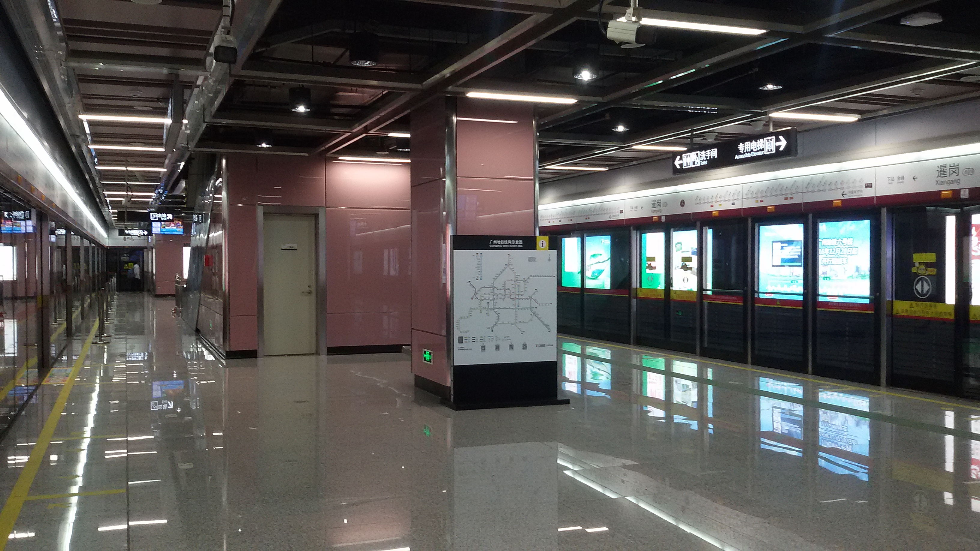 粵語: 廣州地鐵，暹崗站嘅月台。